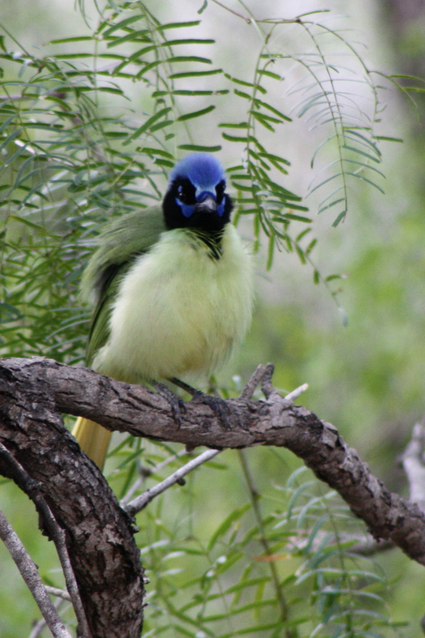 Green Jay (Cyanocorax luxuosus) taken in South Texas